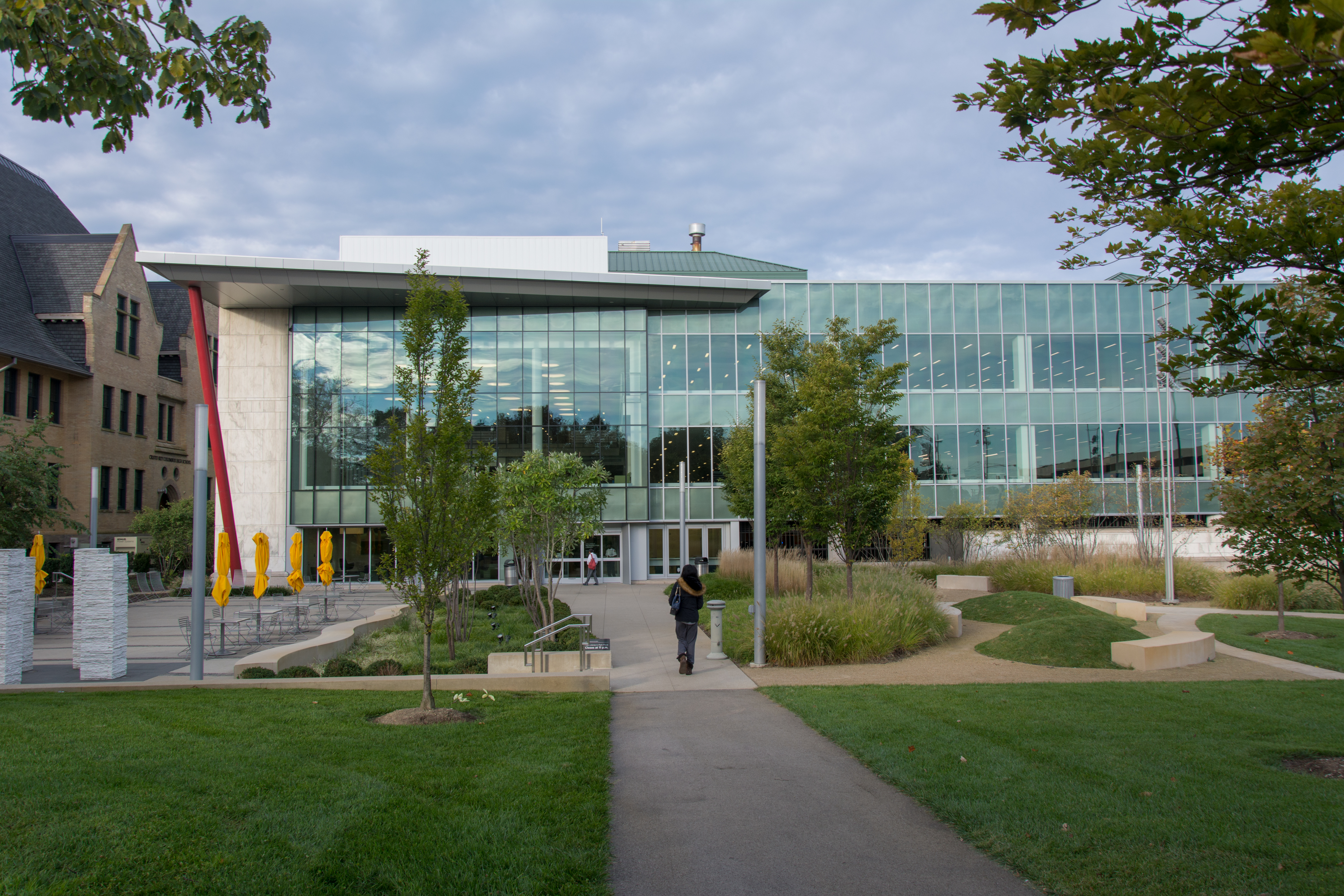 New wing of the Columbus Metropolitan Library.